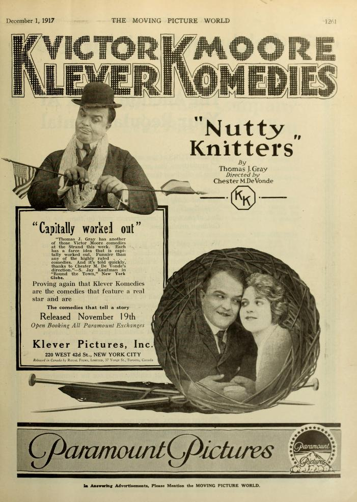 Advertisement in The Moving Picture World